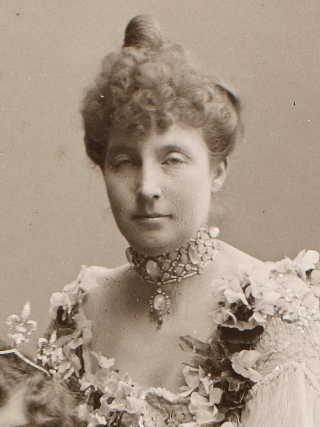 Princess Marie of Orléans (1865–1909)